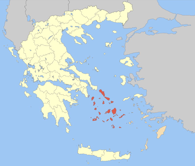 Locator map of Cyclades prefecture (Νομός Κυκλάδων) in Greece